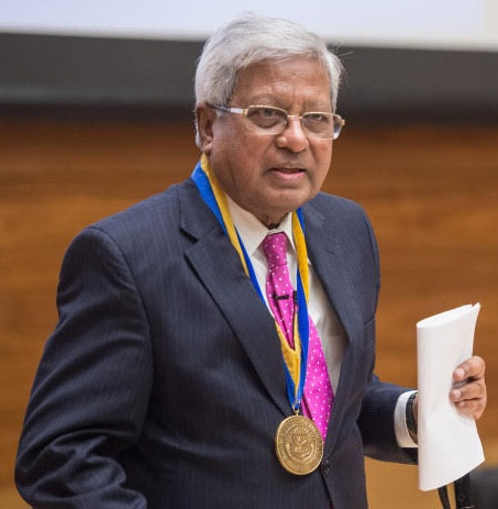 Sir Fazle Hasan Abed receives Thomas Francis, Jr. Medal